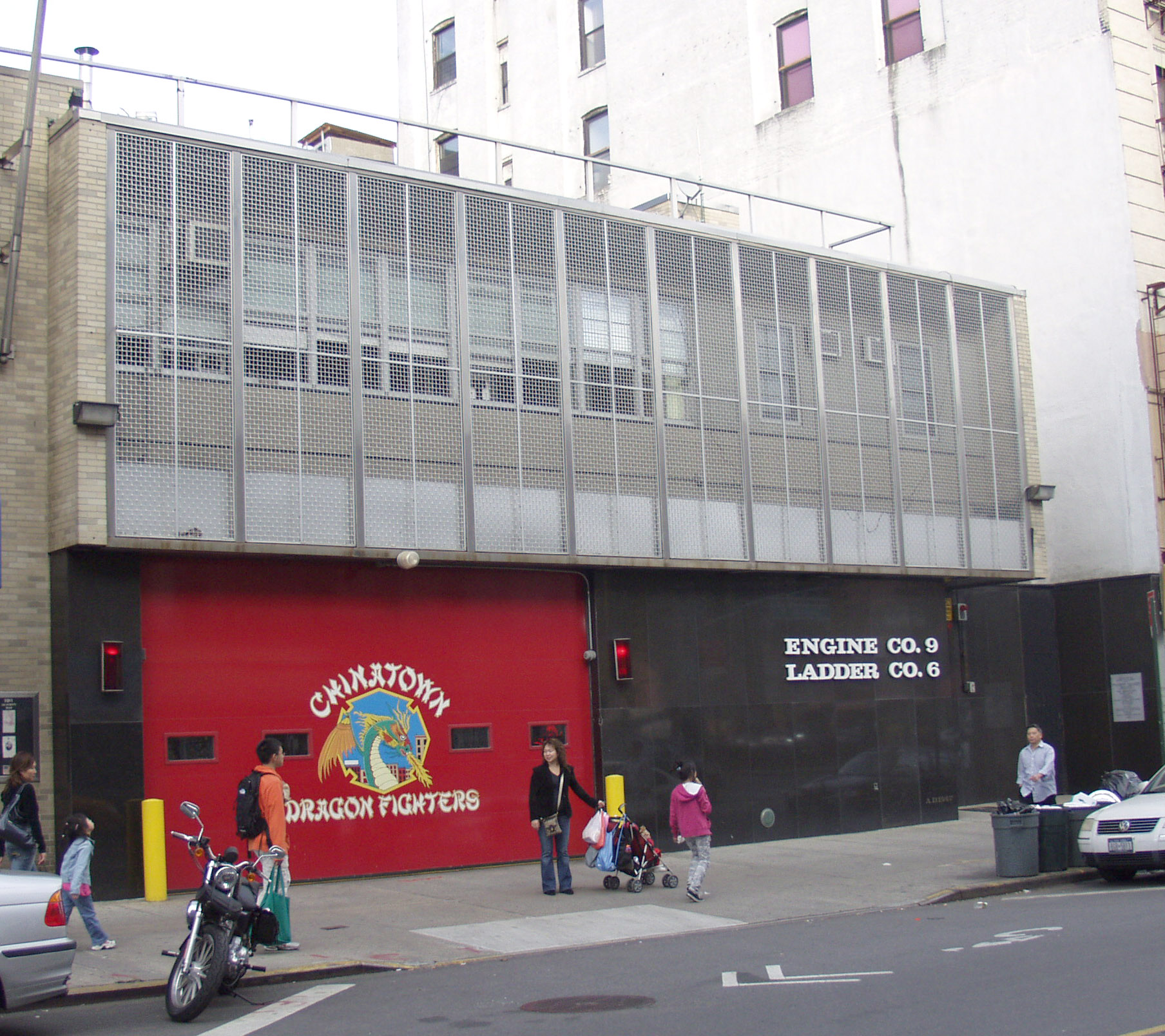 Looking northeast across Canal Street at Chinatown firehouse on a sunny afternoon. ZIP 10002.